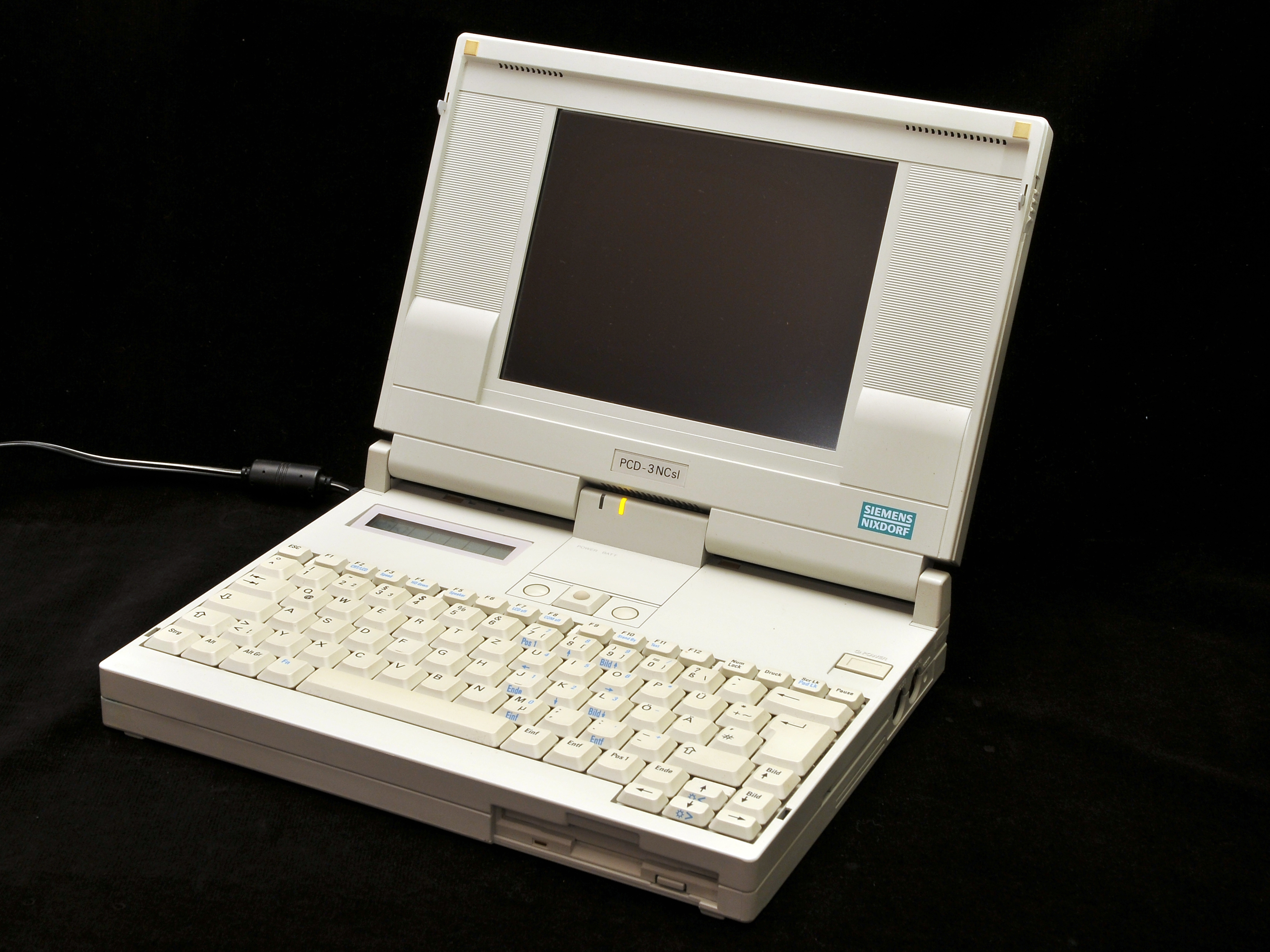 1990ies Laptop PCD-3NCsl by Siemens-Sixdorf